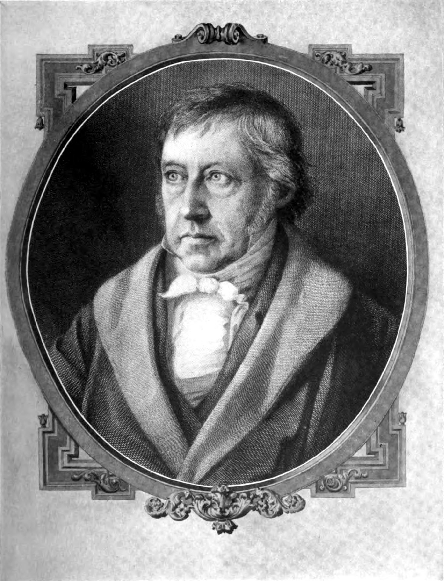 Portrait engraving of the German philosopher Georg Wilhelm Friedrich Hegel in an ornate frame